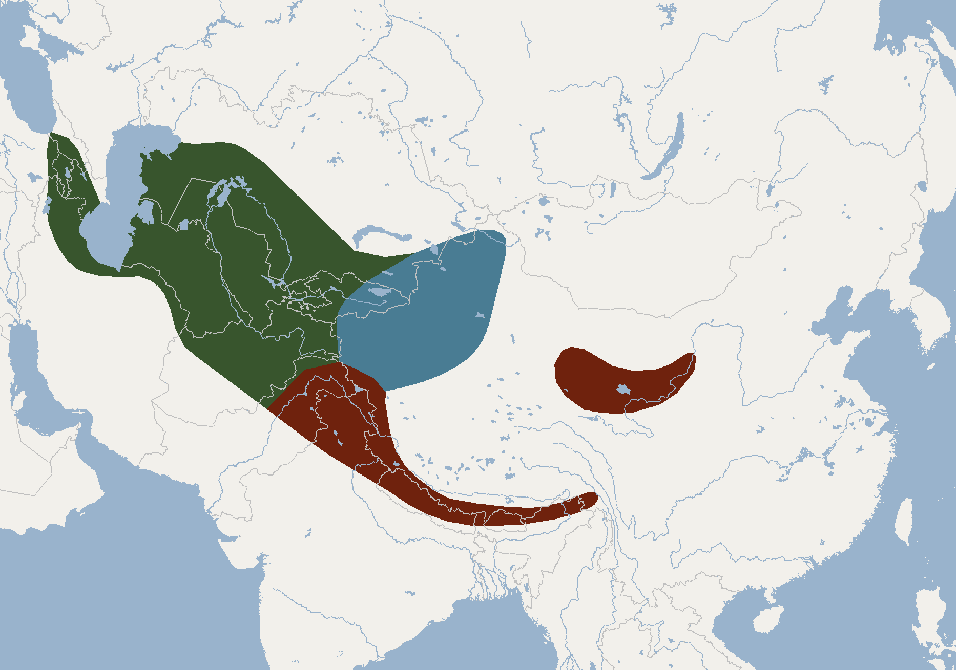 According to Aulagnier & al., 2011, Smith & Xie, 2008 and Bats of Russia website